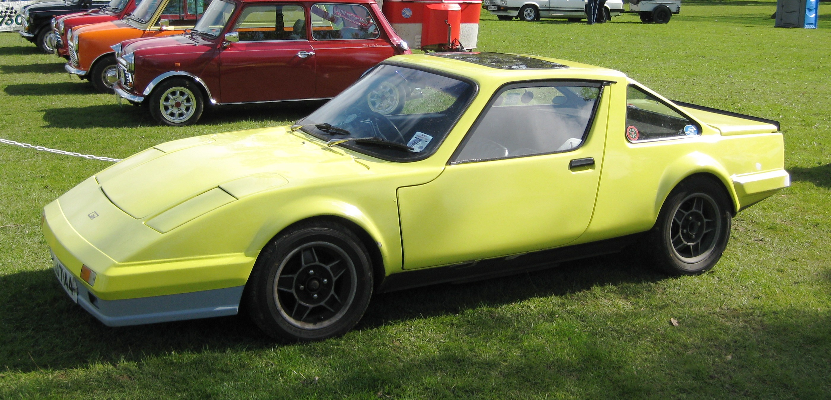 1982-1986 Irish built Clan Crusader (Hillman Imp based kit car)